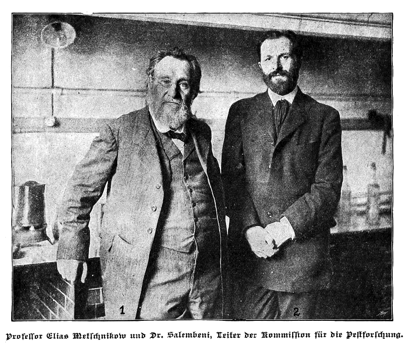 Ilja Iljitsch Metschnikow oder Elias Metschnikoff (1845–1916) und der japanische Pathologe Dr. Salembeni. 1910, Studium der Pest in der Kalmückensteppe.